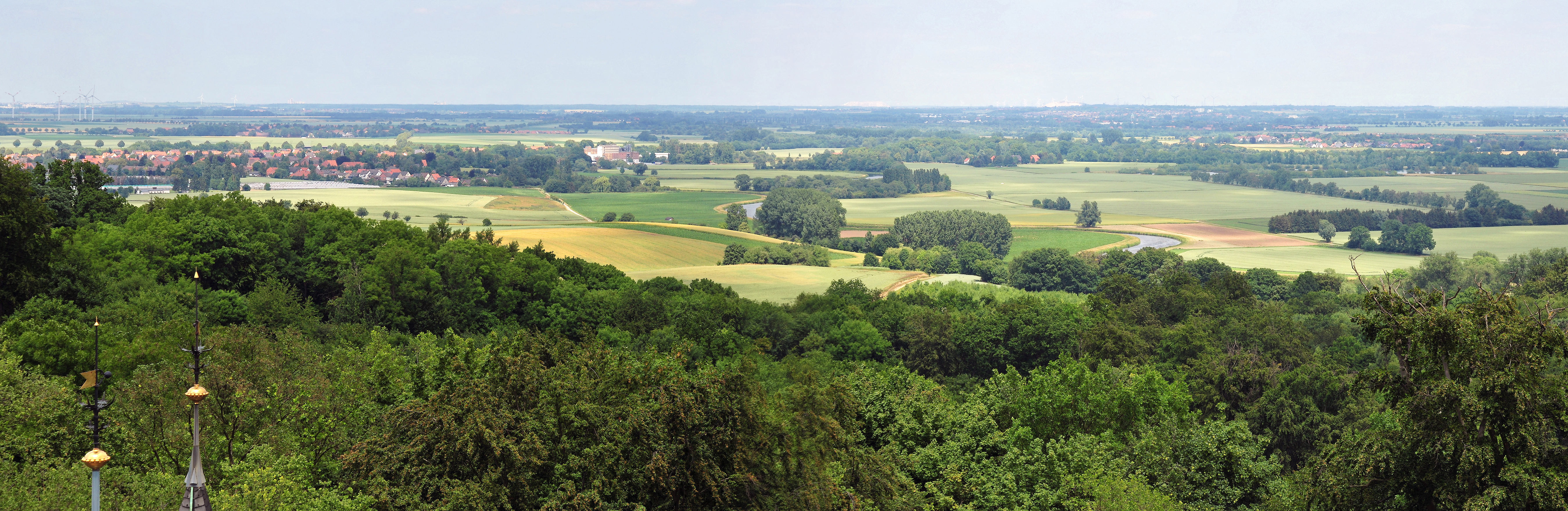 View by the Marienburg Castle onto Schulenburg, Pattensen, Vardegötzen, Jeinsen, Schliekum, Calenberger Mühle, river Leine, hill Calenberg, Calenberg Castle, Lauenstadt, Sarstedt, Giften, Barnten in Lower Saxony, Germany.